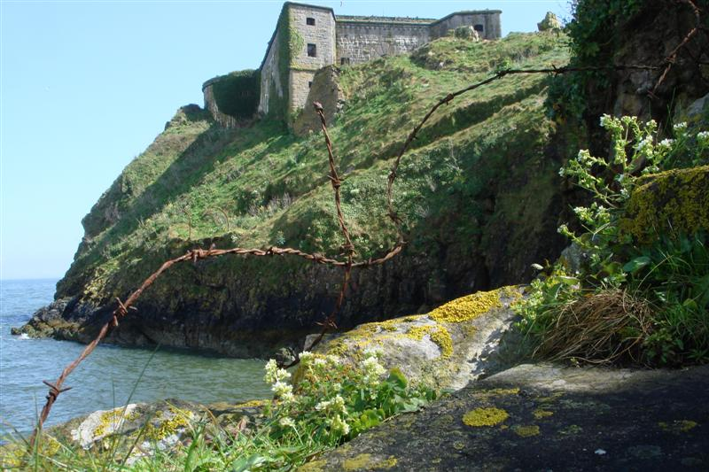 St Catherine's Fort taken from St Catherine's Islands Lower Steps.